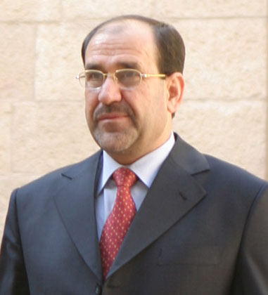 Nouri al-Maliki meets with George W. Bush.